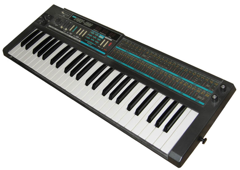 I took this photo.